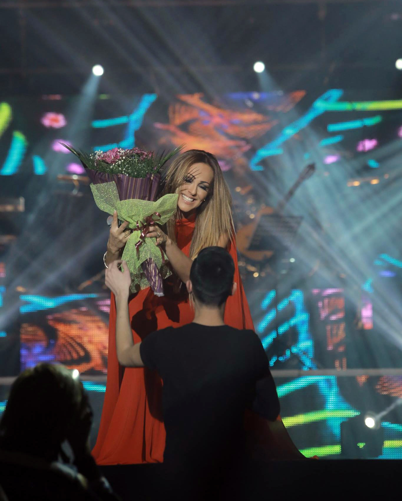 A personal photo taken from the first row at a concert of Gloria.